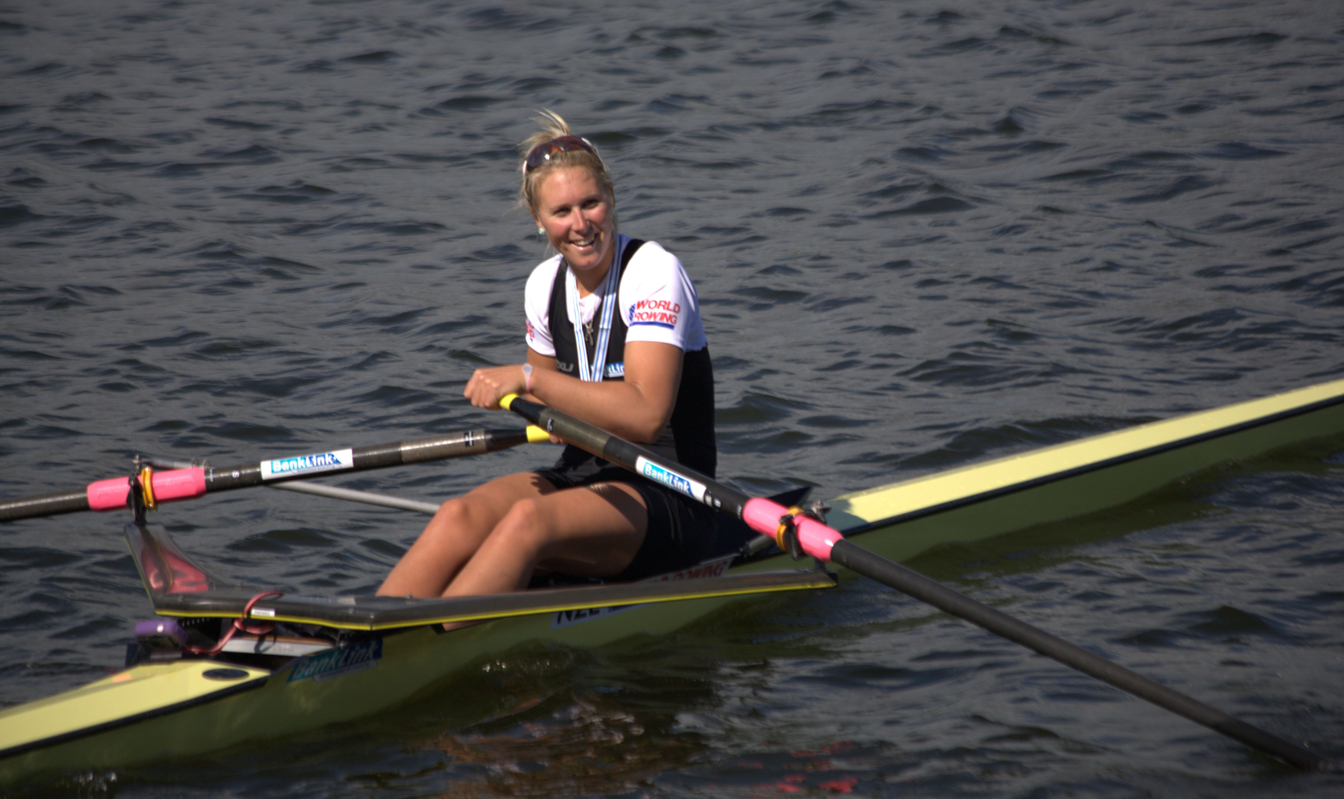 NZ's singles bronze medallist. 2010 World Rowing Championships.